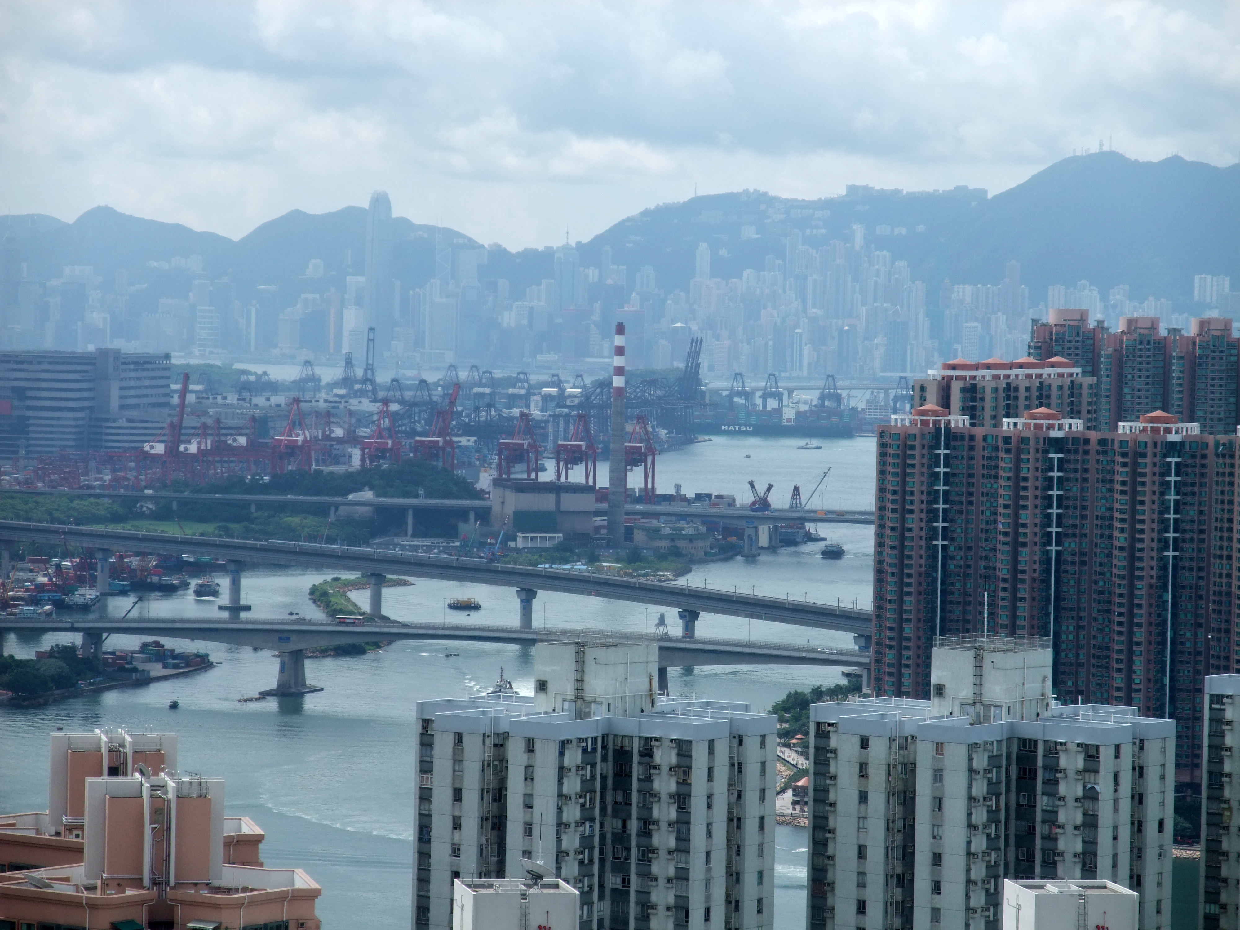 Photo of Rambler Channel